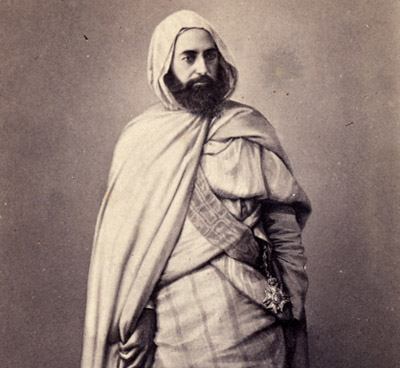 Photograph of Abdul Qadir Al-Jazairi, wearing the sash of the Legion d'Honneur presented to him by the French Government,photographed by Mayer & Pierson, [photographes De S.M.L'Empereur ] Paris 1850's.The Algerian Prince was born in 1807 to Abdul Qadir Muhyidin, he was captured by the French in 1847,following years of struggle against their Algerian occupation.Pardoned by the Emperor Napoleon III,and exiled with a pension and hundreds of his Magharebe [Algerian ] followers to Damascus in 1852.They resided in the Bab al-Faradis area, along the river,[ his house still standing ].He was decorated by Queen Victoria, and European Heads of States for his role in protecting their Consuls and citizens during the 1860's events. Abdul Qadir was the most sought after celebrity by the European travelers to Damascus,especially the British,and was photographed by Bonfils. .He was buried in Muhyidin Mosque [ his father's namesake, and the burial site of his Sufi master al-Arabi ] in Damascus in 1883. His remains were returned to Independent Algeria in the 1960's.